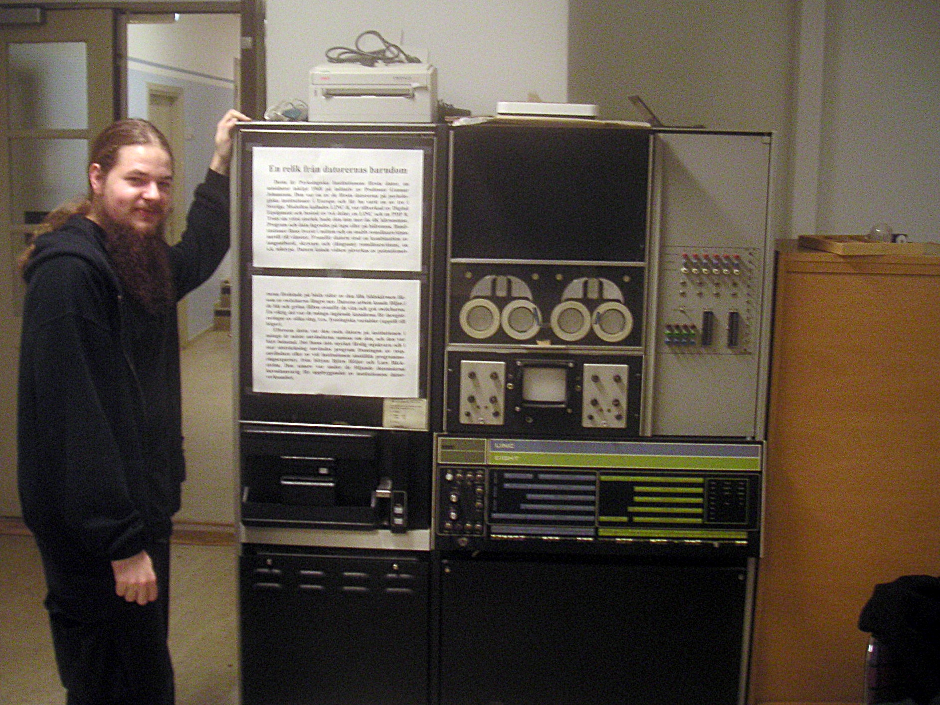 LINC-8 computer on display at Uppsala University, Uppsala, Sweden.